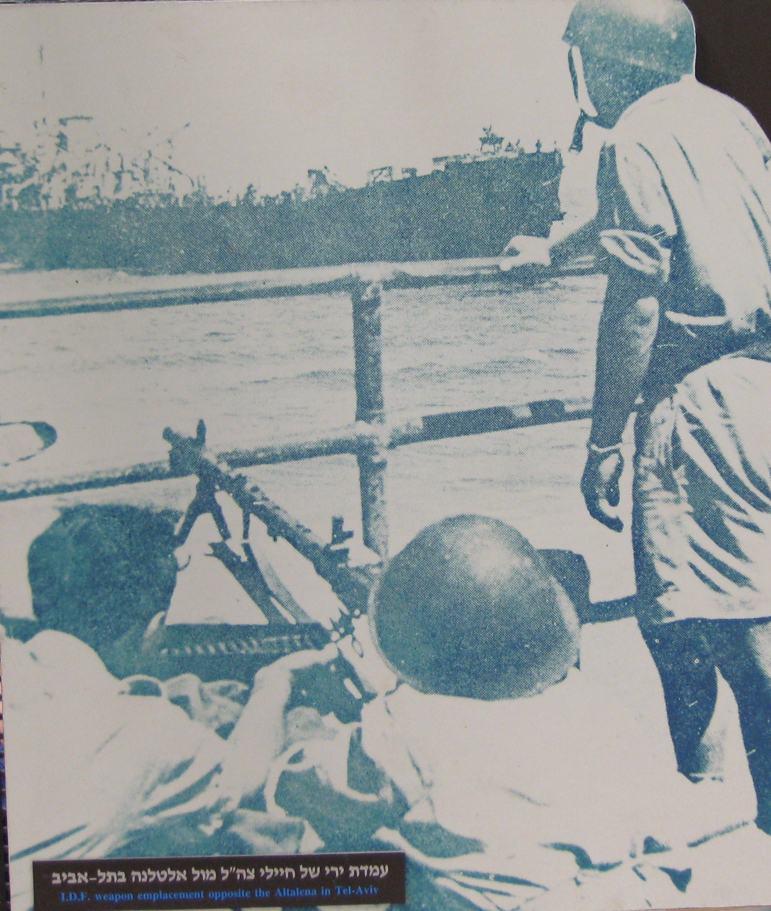 Beit Gidi Museum Exhibits